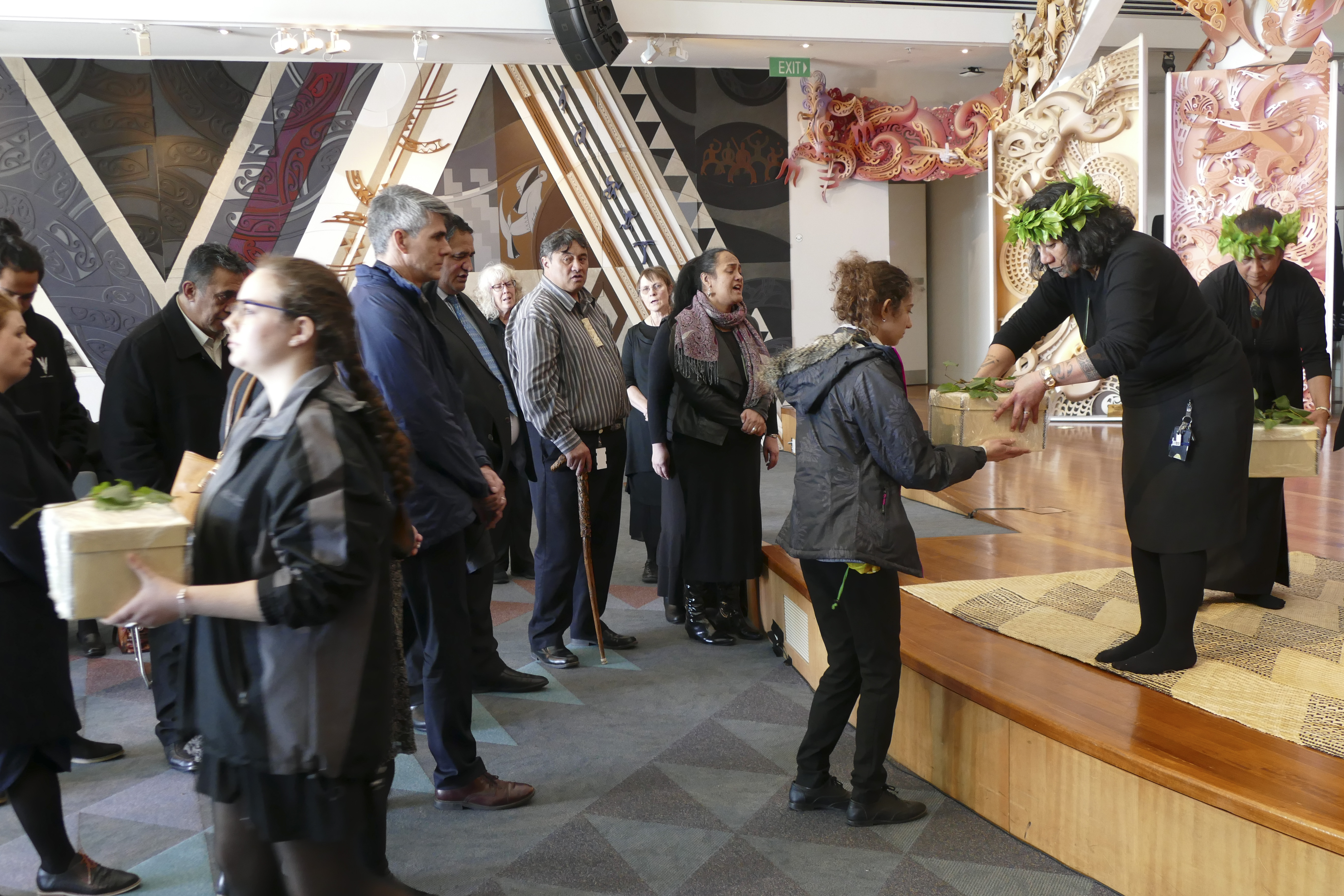 A delegation of Embassy staff participated in a repatriation ceremony at New Zealand’s national museum, Te Papa Tongarewa. The museum leads the Karanga Aotearoa National Repatriation Programme, working with museums around the world to bring home Maori and Moriori skeletal remains that were removed from New Zealand in the 19th Century. The most recent repatriation included 16 items from United States institutions, the deYoung Museum of Fine Arts in San Francisco and the Yale Peabody Museum in Massachusetts, as well as one item from a museum in Germany. The remains were welcomed back to New Zealand in a formal powhiri (Maori welcome ceremony) comprising speeches and singing. Embassy staff were invited to be pall bearers for the service, carrying the ancestral remains, in conservation boxes, onto Te Papa’s marae. Public Affairs Officer Dolores Prin led the Embassy delegation and spoke about New Zealand’s and the United States’ shared cultural values around preservation of heritage, and strong people to people ties.